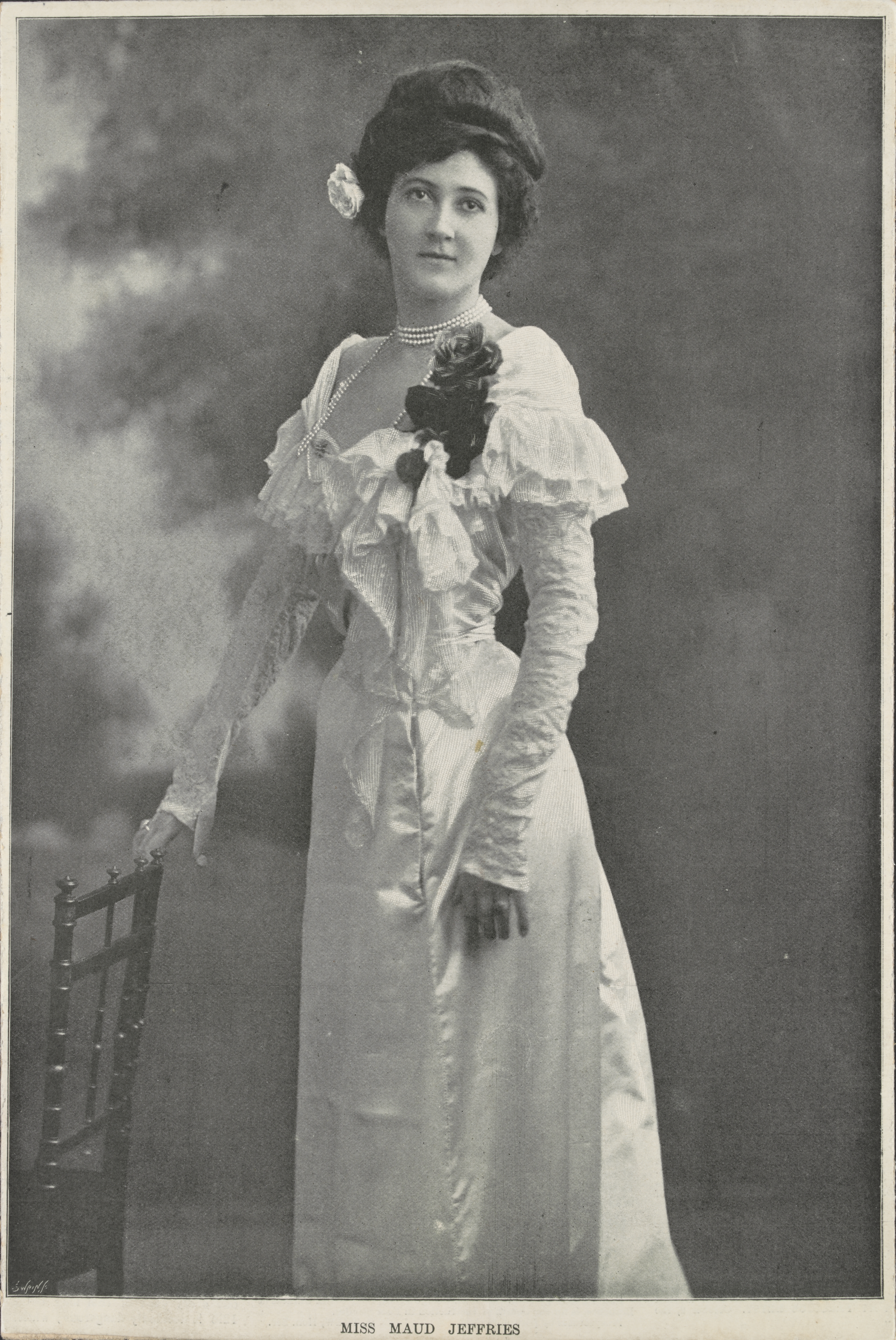 Full-length portrait of American actress Maud Evelyn Craven Jeffries (1869–1946)